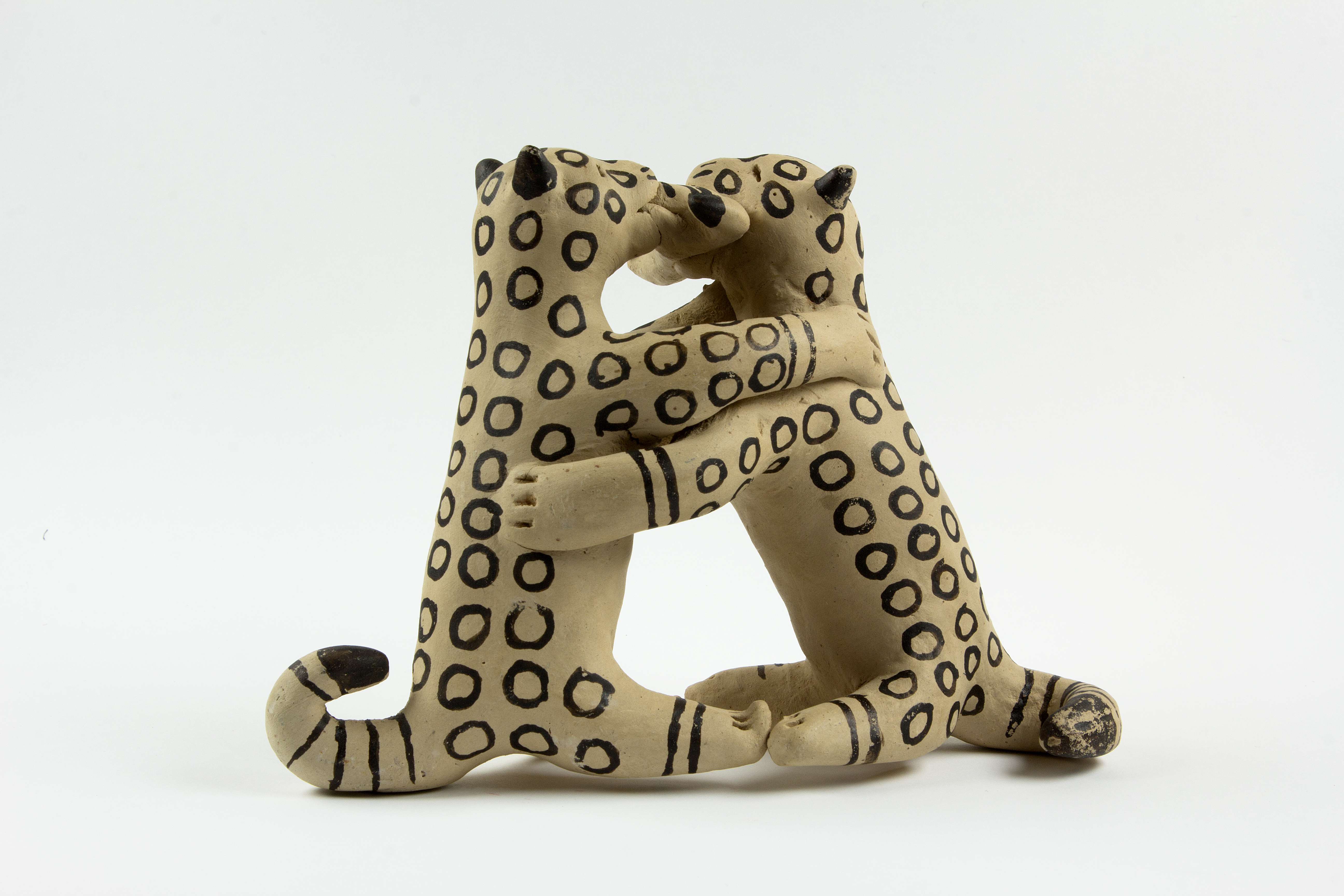 two entwined jaguars size : 11,5 x 16,5 x 6,5 cm material : clay technique : ceramic